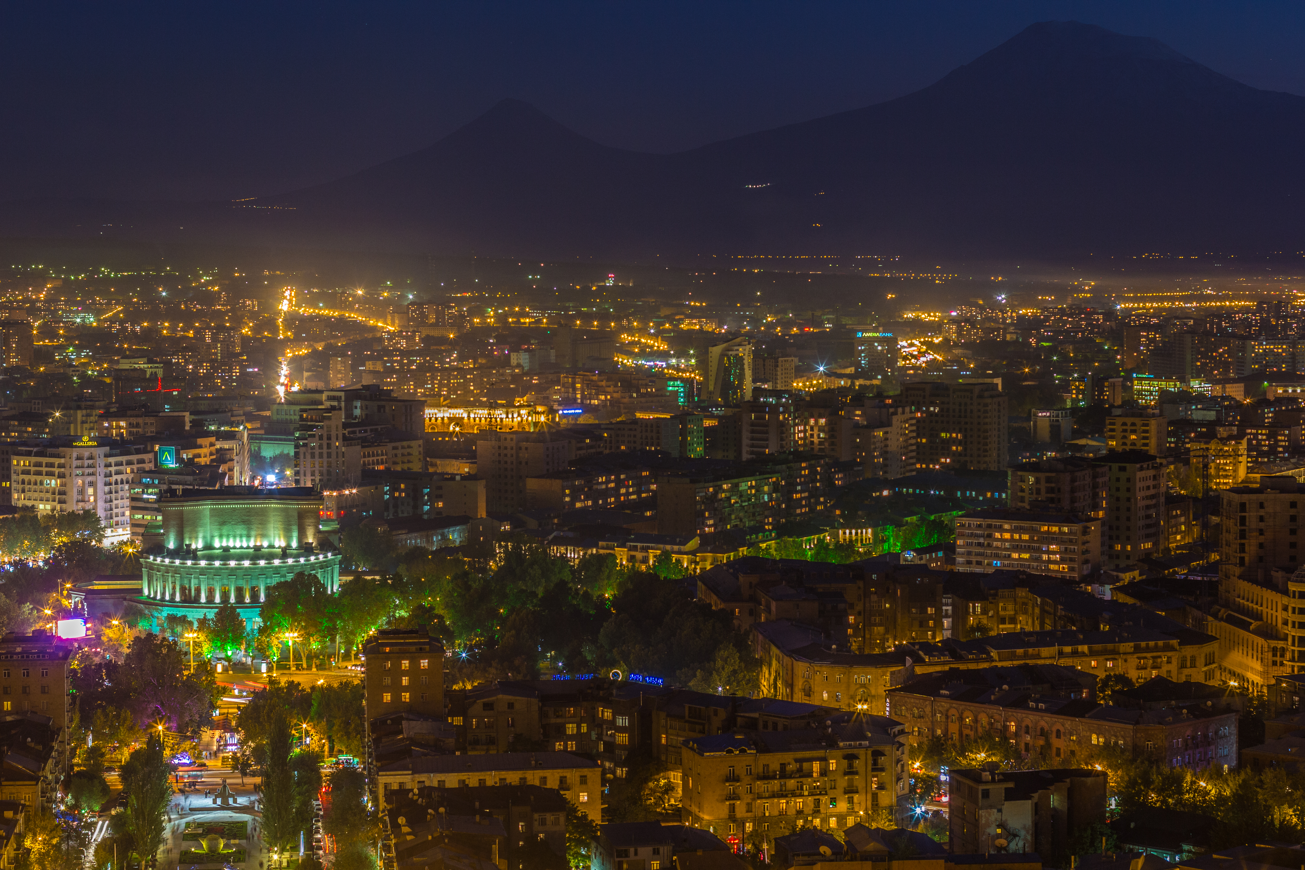 A nighttime view of Yerevan, the capital city of Armenia. Taken from the World War II Memorial Monument.